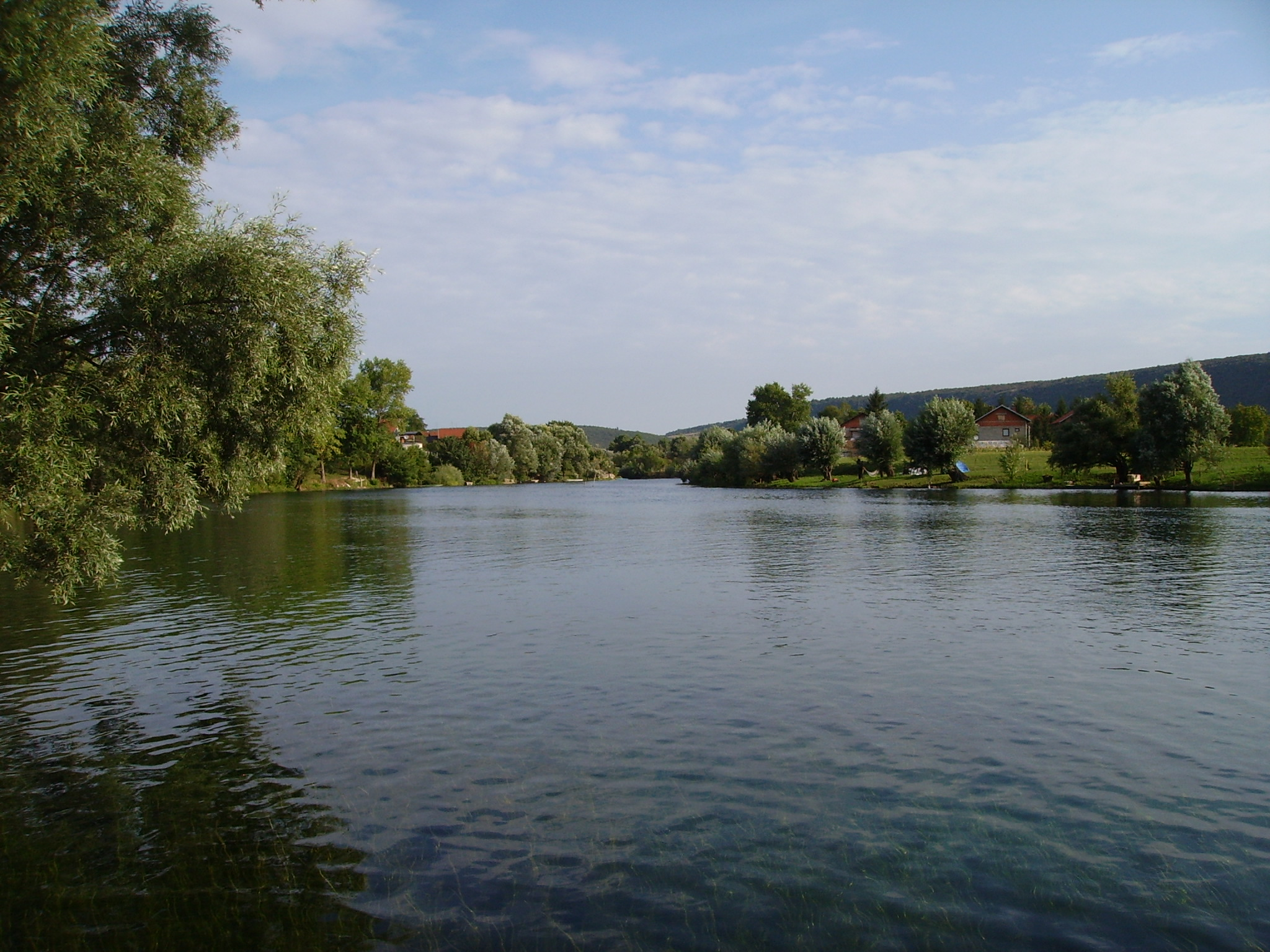 River Una south of Bihać.